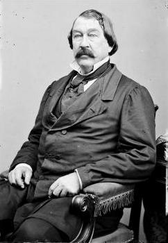 photo of William R Peck (1831-1871)